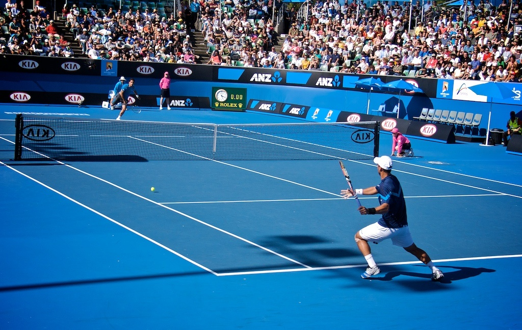 Nicolas Almagro serves to Alejandro Falla at the 2010 Australian Open.